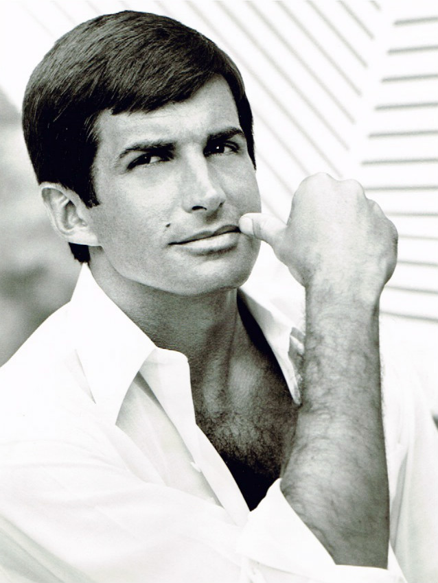 Photo of George Hamilton from the short-lived nighttime soap opera Harold Robbins' The Survivors. Since Peyton Place was a success, this one apparently went on the air hoping for the same. Despite the big-name cast--Lana Turner was among the television cast--the program lasted only one season.